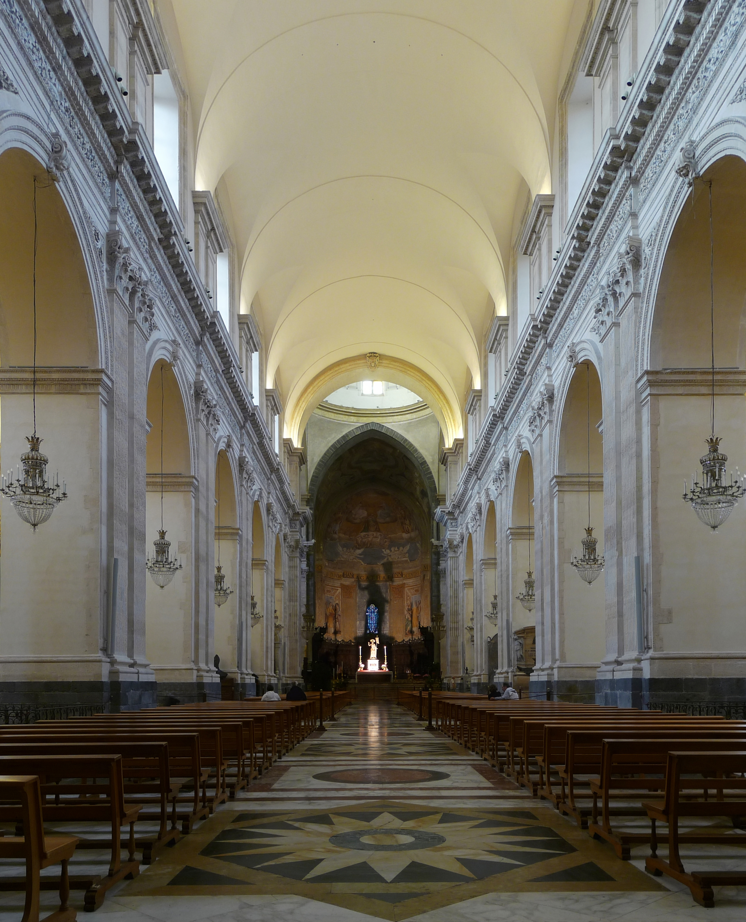 Cattedrale di Sant'Agata, Catania, Sicily, Italy